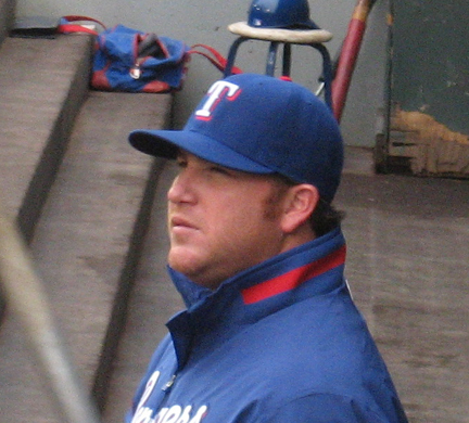 Texas Rangers pitcher Sidney Ponson at Safeco Field, May 6, 2008 07:04, 7 May 2008 . . Mretalli . . 432×390 (152 KB)